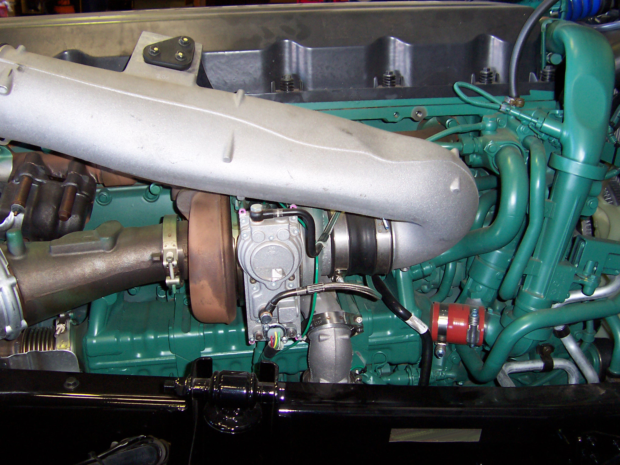 Volvo 13 litre EGR diesel engine